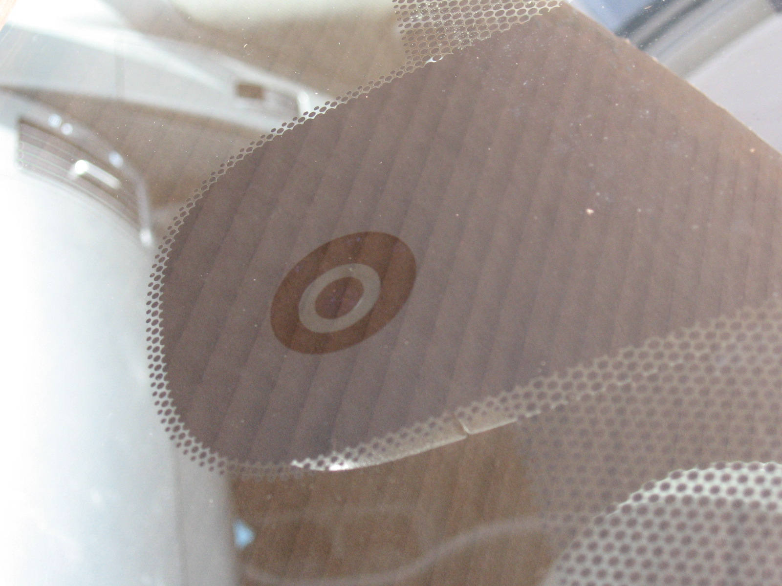 Rain detector